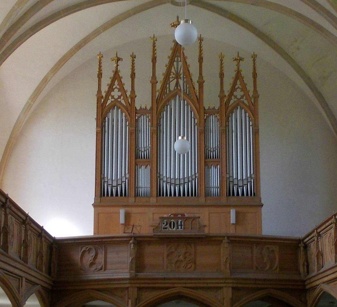 St. Urban's Church in Wantewitz (Priestewitz, Meissen district, Saxony)